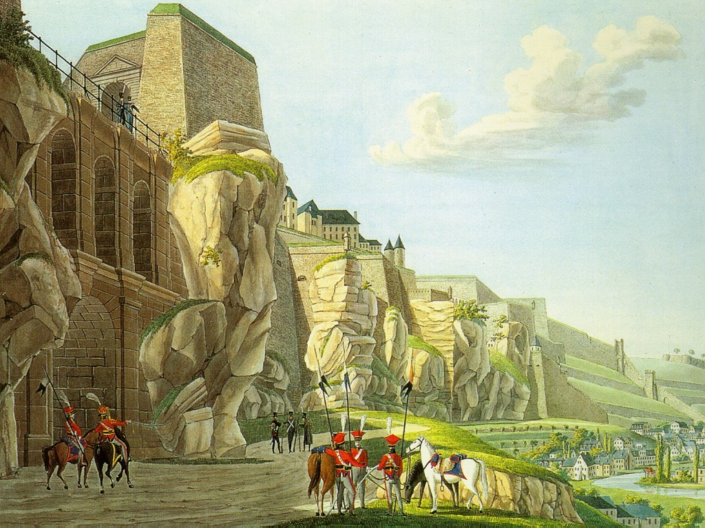 Painting by Christophe-Guillaume Selig of the Luxembourg fortifications as seen from Pfaffenthal after the capitulation of 1814.